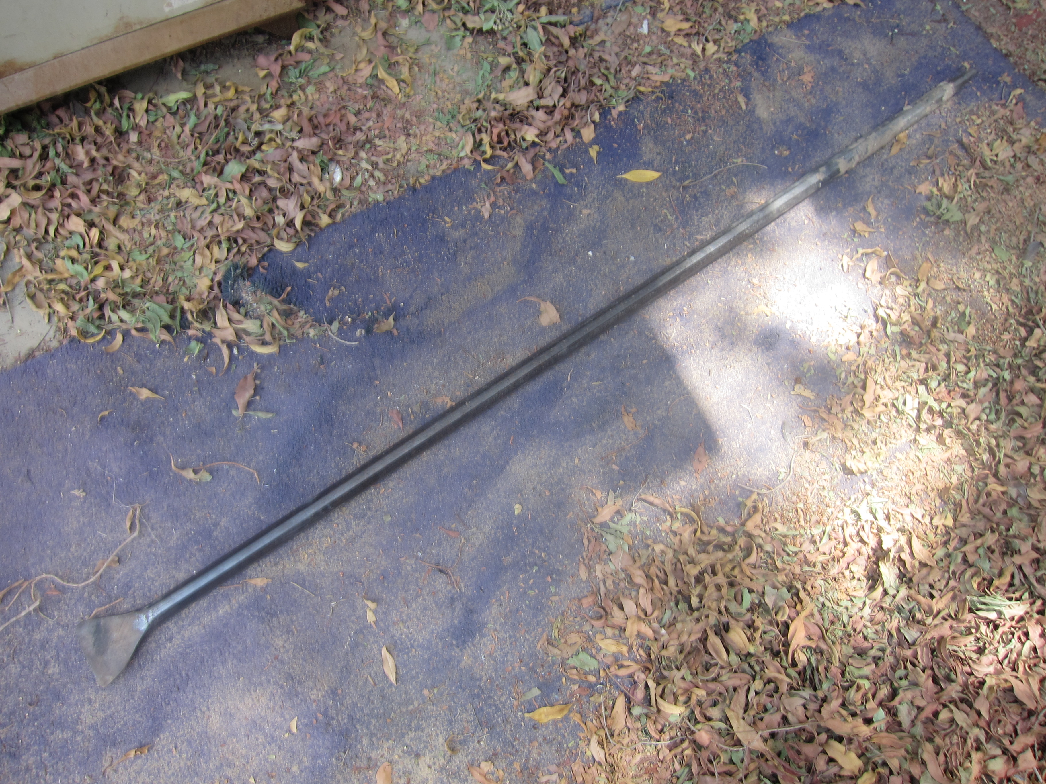 Crowbar, Prybar എളാങ്ക്, അലവാങ്ക്, ഇരുമ്പുപാര, കമ്പിപാര, കുത്തുപാര, കന്നക്കോൽ